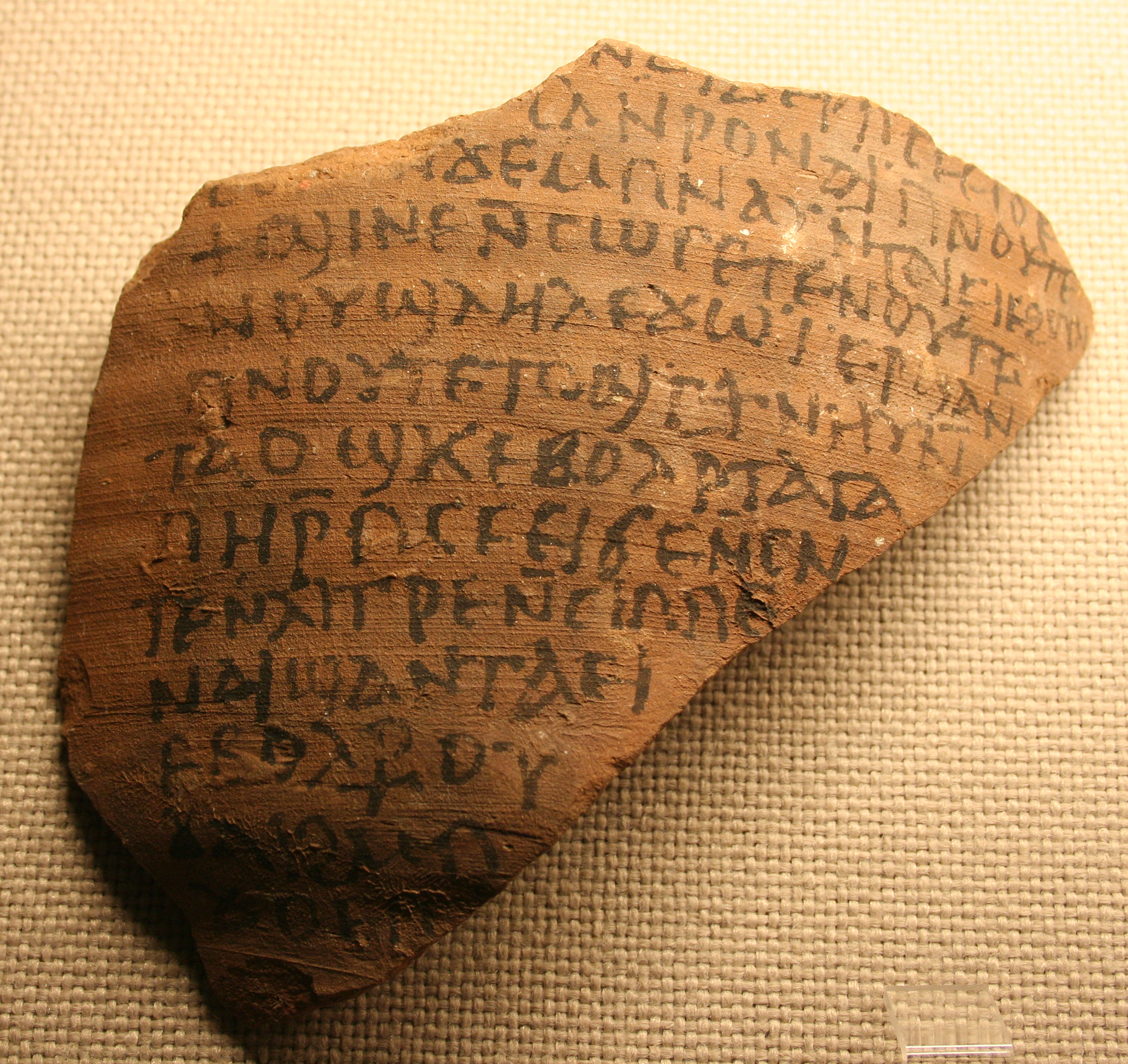 Coptic ostracon; 7th century AD